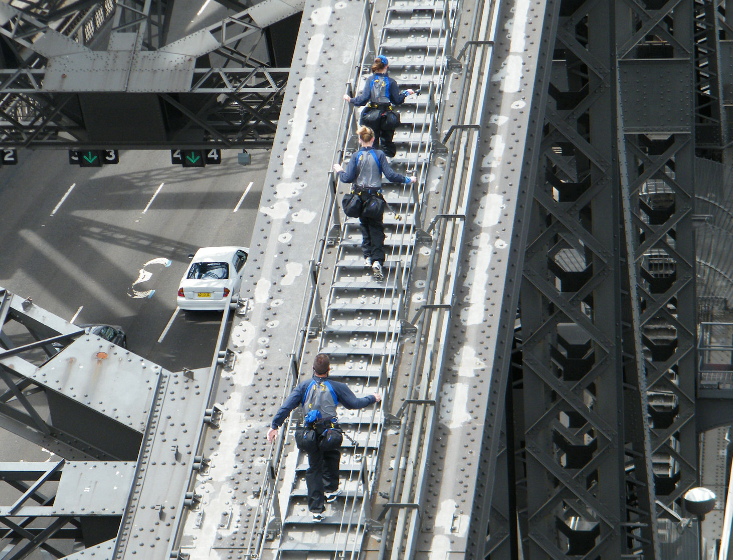 Participants on the BridgeClimb on the Sydney Harbour Bridge, as seen from the Pylon Lookout. Photographed by user Coolcaesar on November 29, 2009.